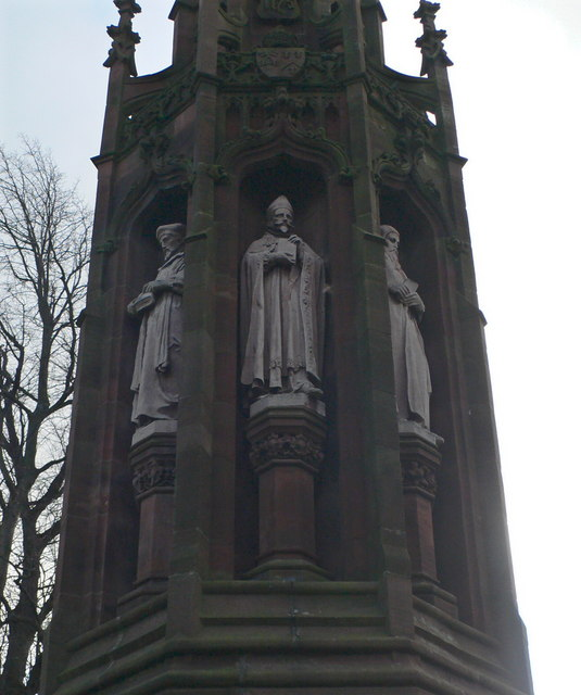 Translator's Memorial, St Asaph. In the centre is Bishop William Morgan, who was Bishop of Llandaff and of St Asaph, and the translator of the first version of the whole Bible into Welsh. He was born in 1545 at Ty Mawr Wybrnant, in the parish of Penmachno, near Betws-y-Coed.